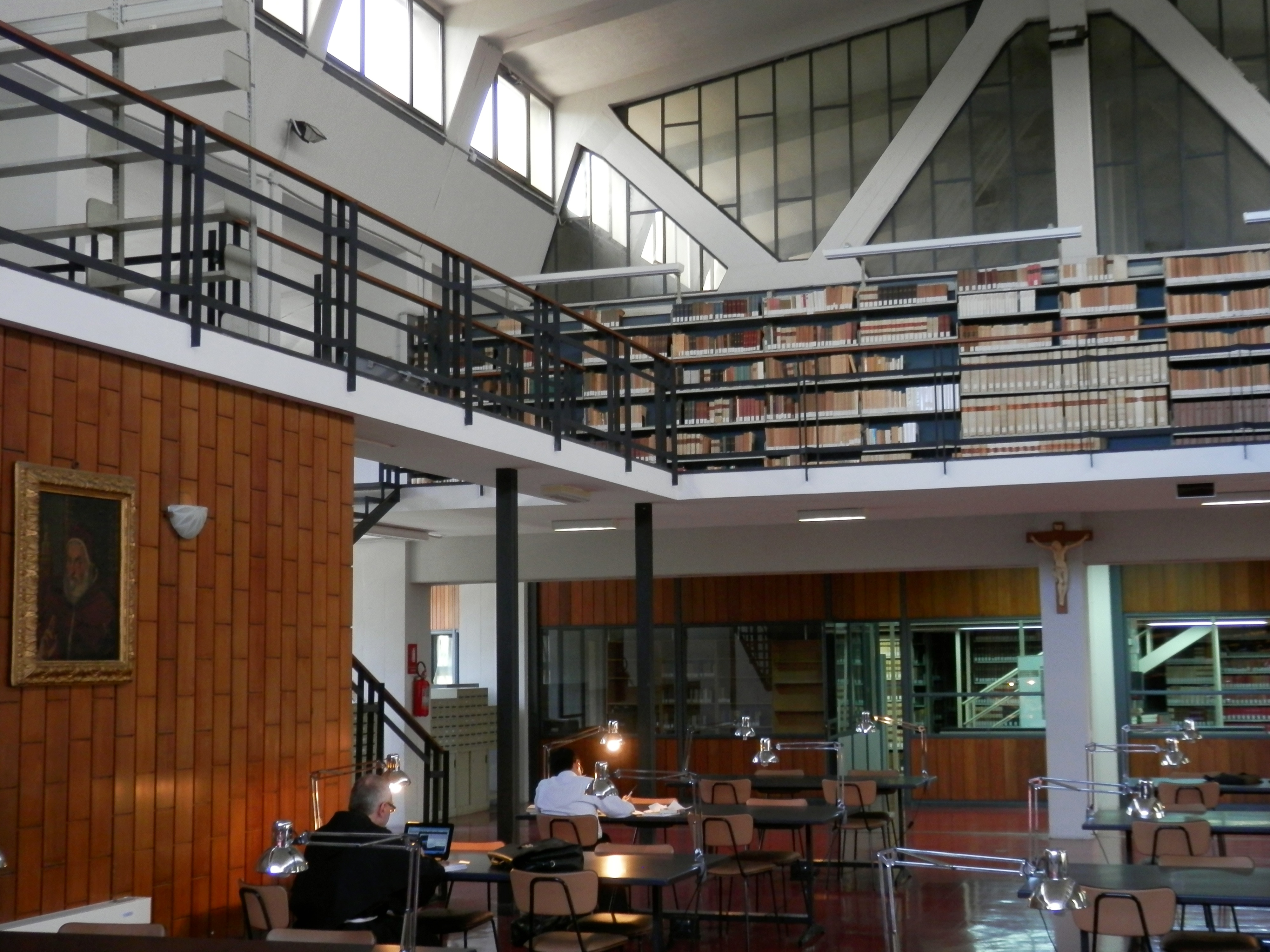 Rome, Pontifical College of Theology 'St. Bonaventure' - library